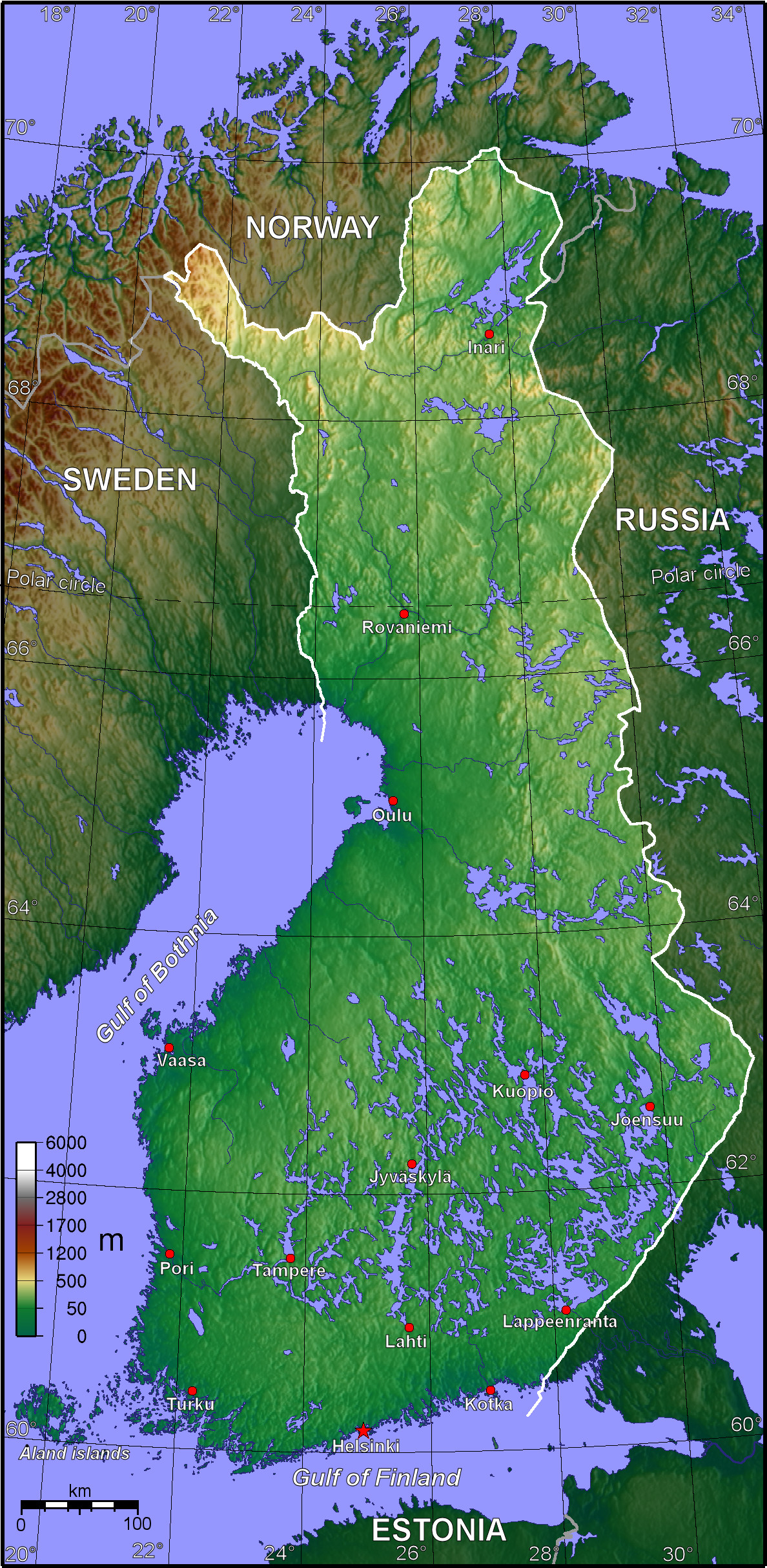 Topographic map of Finland (english version)